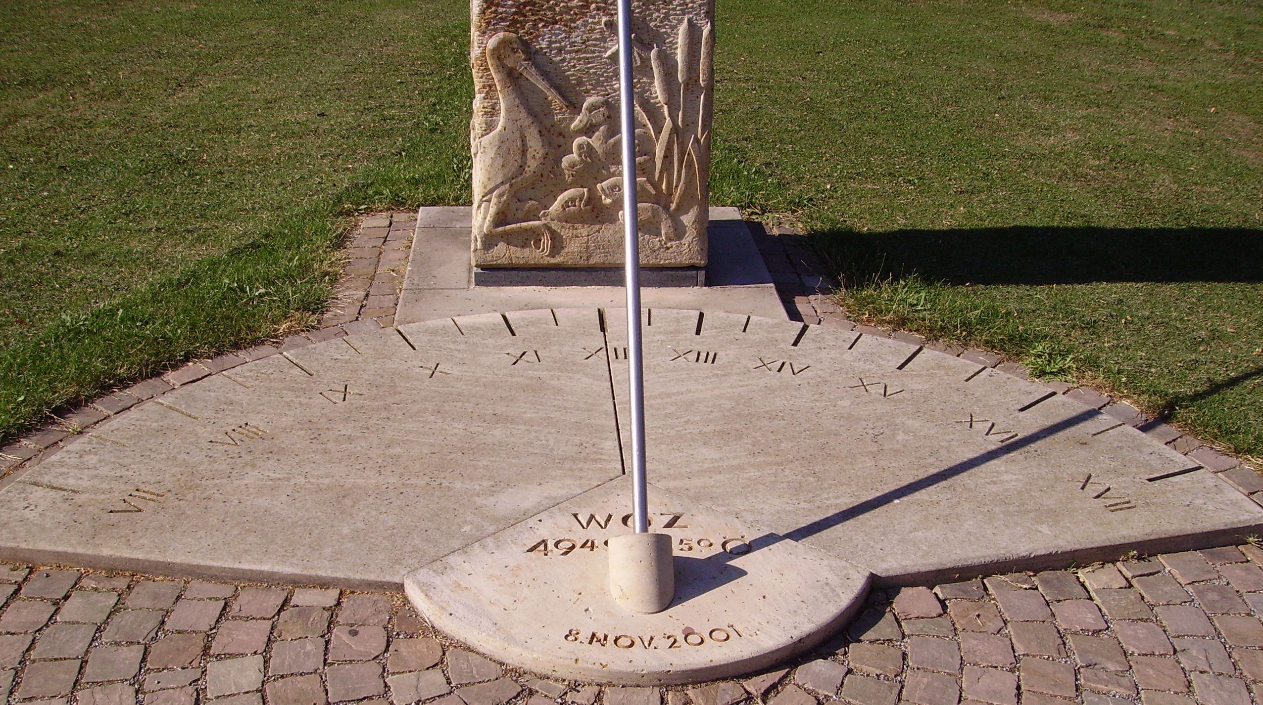 sundial in Ludwigshafen, Germany